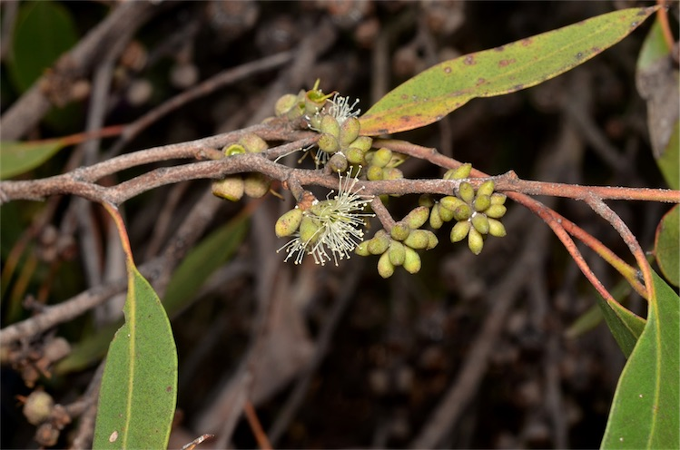 Flower buds of Eucalyptus camfieldii in the Australian National Botanic Garden